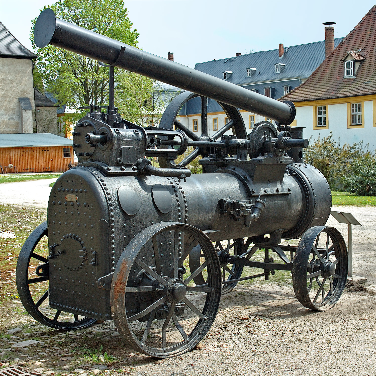 This image shows an old steam portable engine.